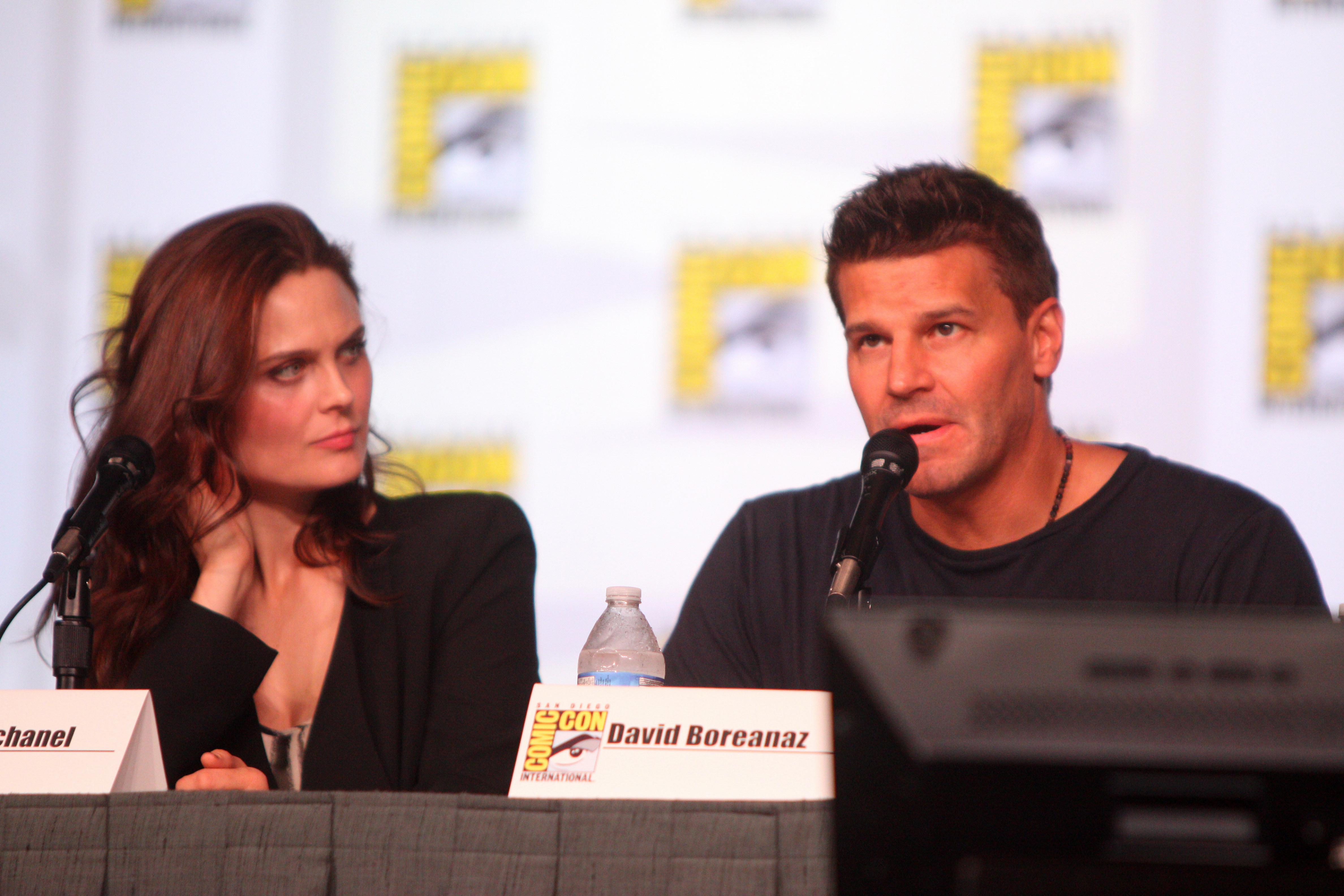 Emily Deschanel & David Boreanaz speaking at the 2012 San Diego Comic-Con International in San Diego, California.